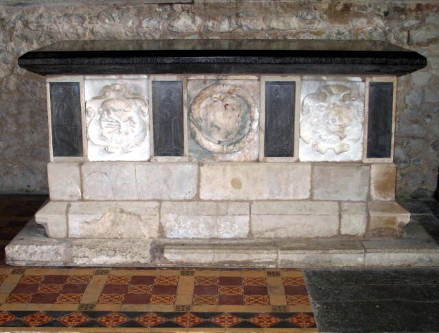 Tomb of Edmund West, All Saints Church at Marsworth Marsworth is a village in Buckinghamshire, about two miles north of Tring and six miles east of Aylesbury. The village, whose name is Anglo Saxon in origin - Mæssanwyrth meaning 'Mæssa's enclosure' - grew significantly at the end of the 18th Century with the construction of the Grand Junction (now Grand Union) Canal, which passes through it. There are records of a church in Marsworth since the 12th century. All Saints Church was further extended in the 14th and 15th centuries. Despite further restoration in the first part of the 19th century by 1880 the church was in a deplorable condition and the newly appointed vicar, the Rev. F. W. Ragg, with the help of local men whom he trained in stonework, set about restoring it over the next 25 years. The stone-carving that resulted is much in evidence within the Church, particularly that which surrounds the beautiful East window in which are represented scenes from the lives of Saints Augustine, Aiden, Bede and Hugh, and which bears the dedication: "This window, the work of F W Ragg was filled with glass chiefly by members of Trinity College Cambridge, in sympathy with the labour he bestowed for the good of Marsworth on the fabric of this church 1882-1891." He lies in the churchyard in which there are also a number of Polish graves, a reminder of the camp of 900 Polish refugees that existed at Marsworth in the 1950s. The South Chapel contains several memorials to the West family, the most important being this table tomb in memory of Edmund West (d. 1681). It is one of the few known works of Epiphanius Evesham, whose signature appears on the right hand bottom corner of the panel at the North end.